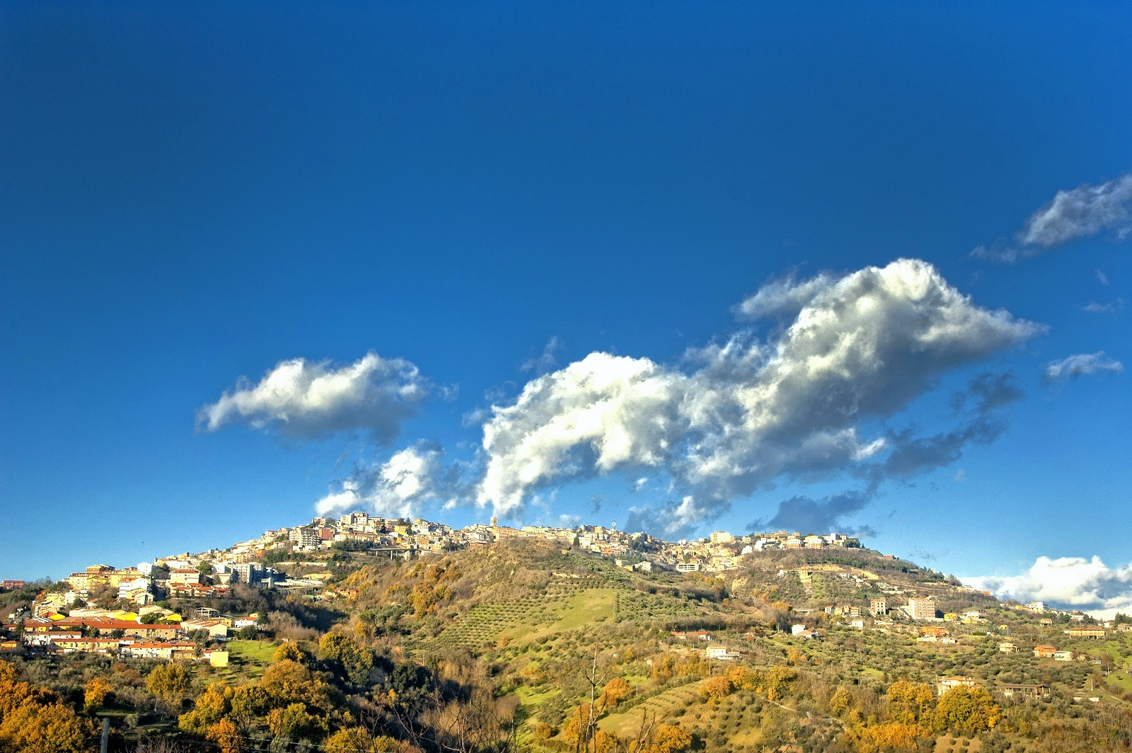 Ariano Irpino, an Italian town in the province of Avellino